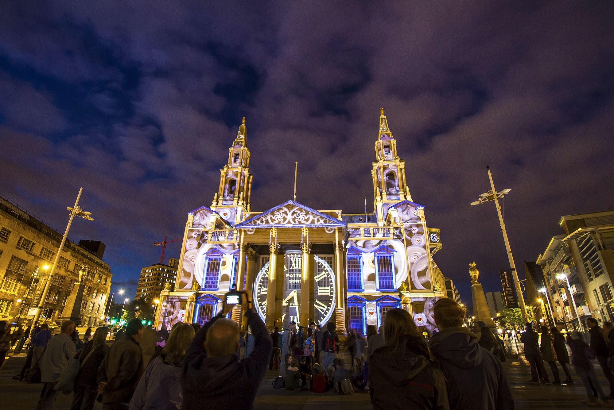 Momentous at Light Night Leeds 2013. A clock projected onto Leeds Civic Hall on the night of Saturday the 5th of October 2013.